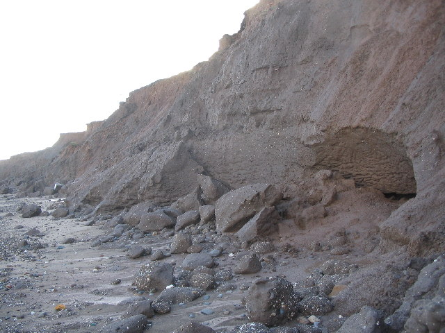 South Cliff, Hornsea, East Riding of Yorkshire, England.This shows the effect of wave action on the soft mudstone cliff at South Cliff, Hornsea. The undercutting, combined with the effect of heavy rainfall permeating the soil, lead to the high rates of erosion all along this section of the Holderness coastline.